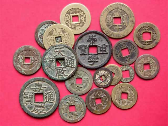 Coins of China (Song through Qing dynasties), Japan and Korea. The "Ta Qing" coin to the left appear to be from the Kang-Xi era (1662-1722). 铜钱（圆形方孔钱），自己拍摄 2004-10-24